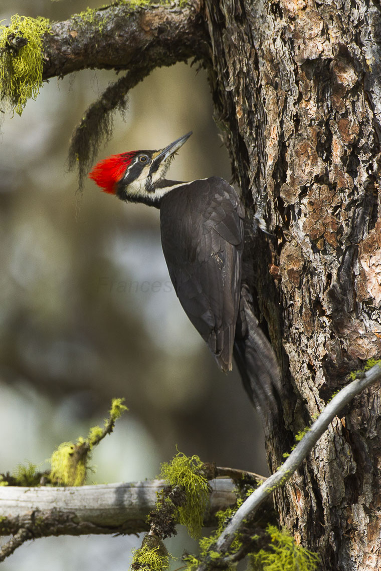 Pileated Woodpecker - Sisters - Oregon_S4E1688